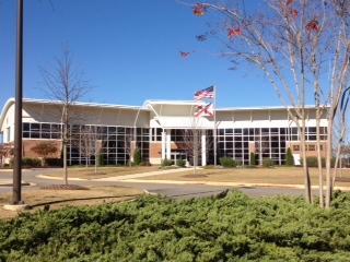 The new terminal opened in September 2010 for the Auburn University Regional Airport with the Robert G. Pitts Field (AUO/KAUO), Auburn, AL, USA.